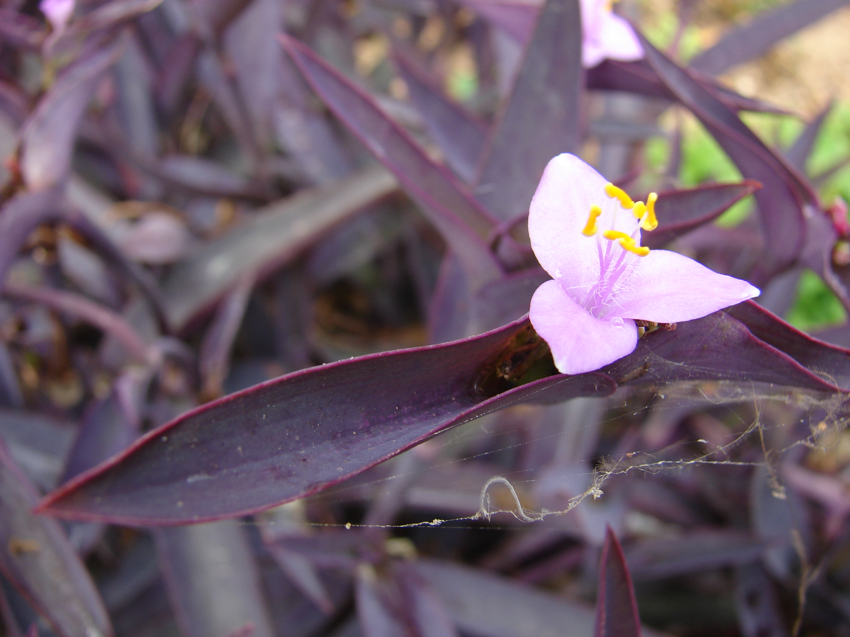 Tradescantia pallida (flower and leaves). Location: Midway Atoll, 4208 Commodore Ave Sand Island